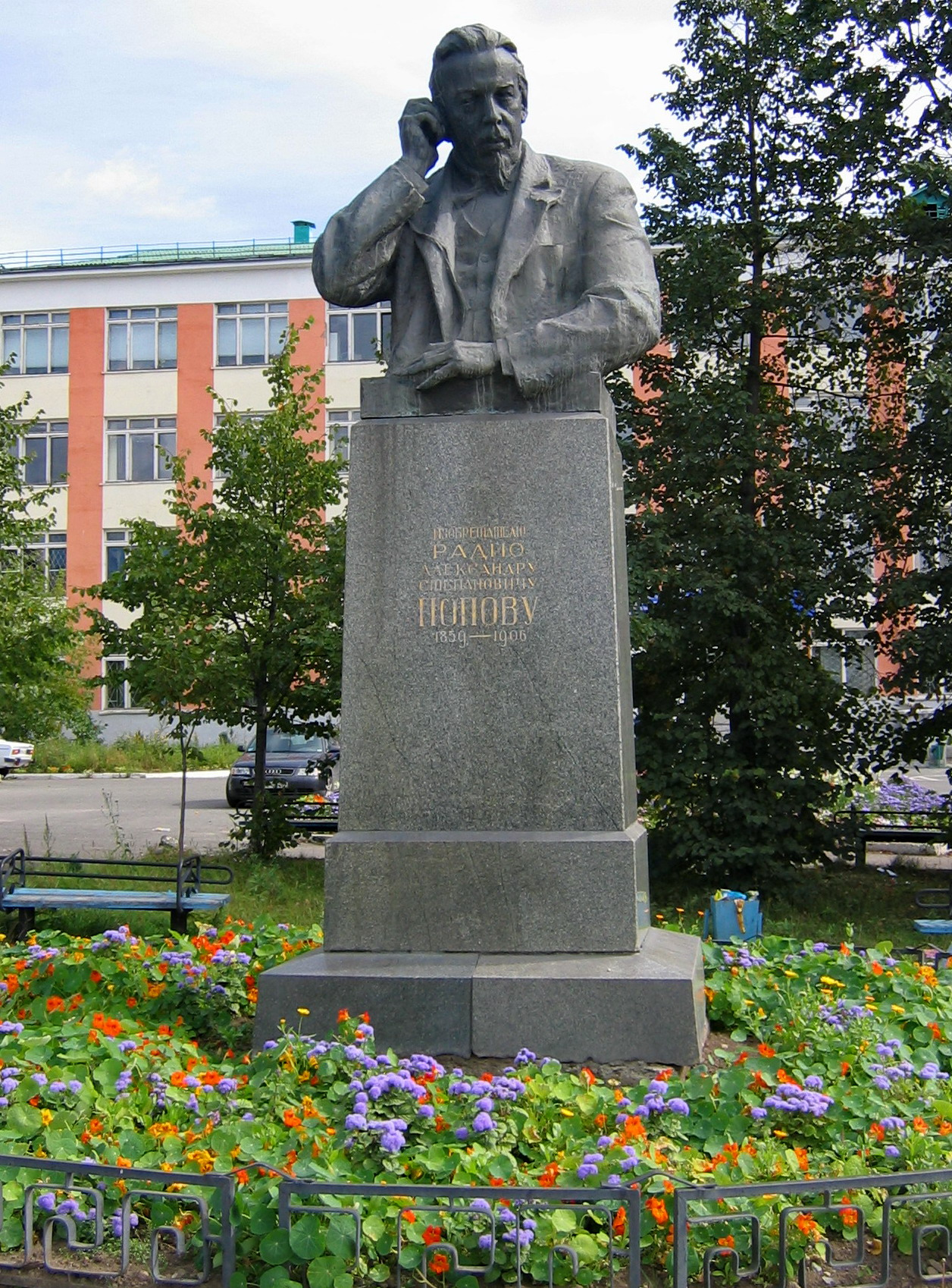 Monument to Alexander Popov in Krasnoturyinsk (Sverdlovsk Oblast, Russia).